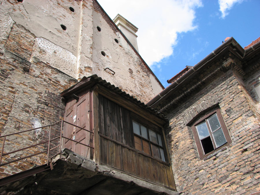 Ex-flat #7-A in Zhovkva castle. Till the beginning of 21st century part of castle was used for accommodation